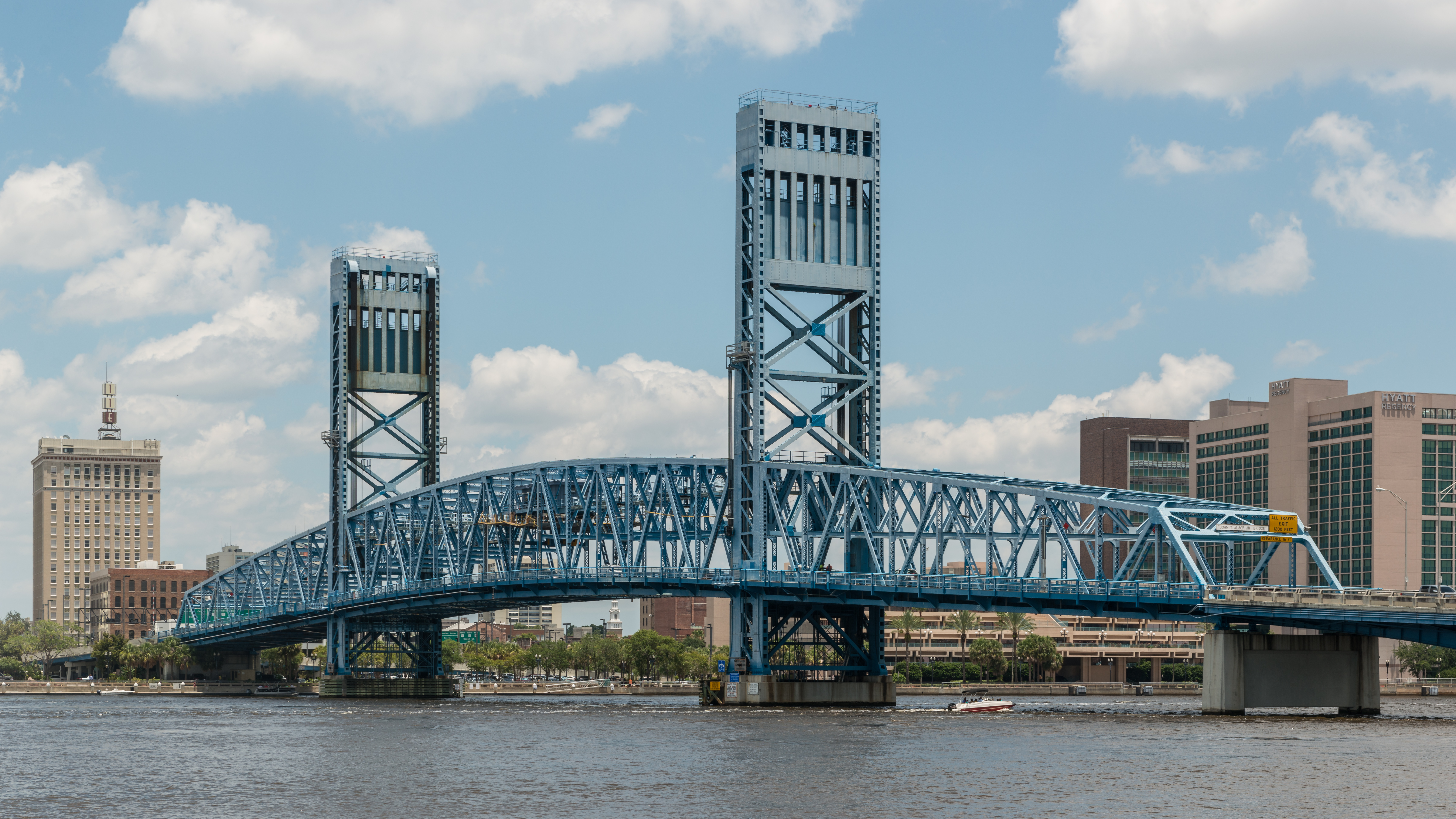 A southwest view of John T. Alsop Jr. Bridge, Jacksonville, Florida